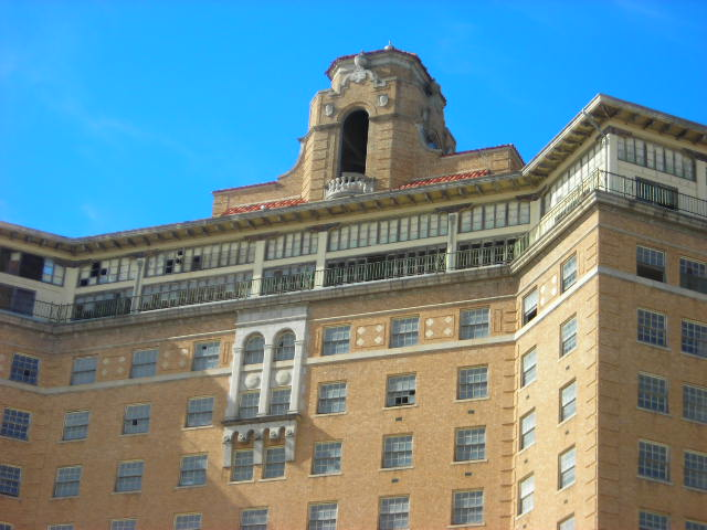 A detail of the Baker Hotel bell tower in Mineral Wells, Texas